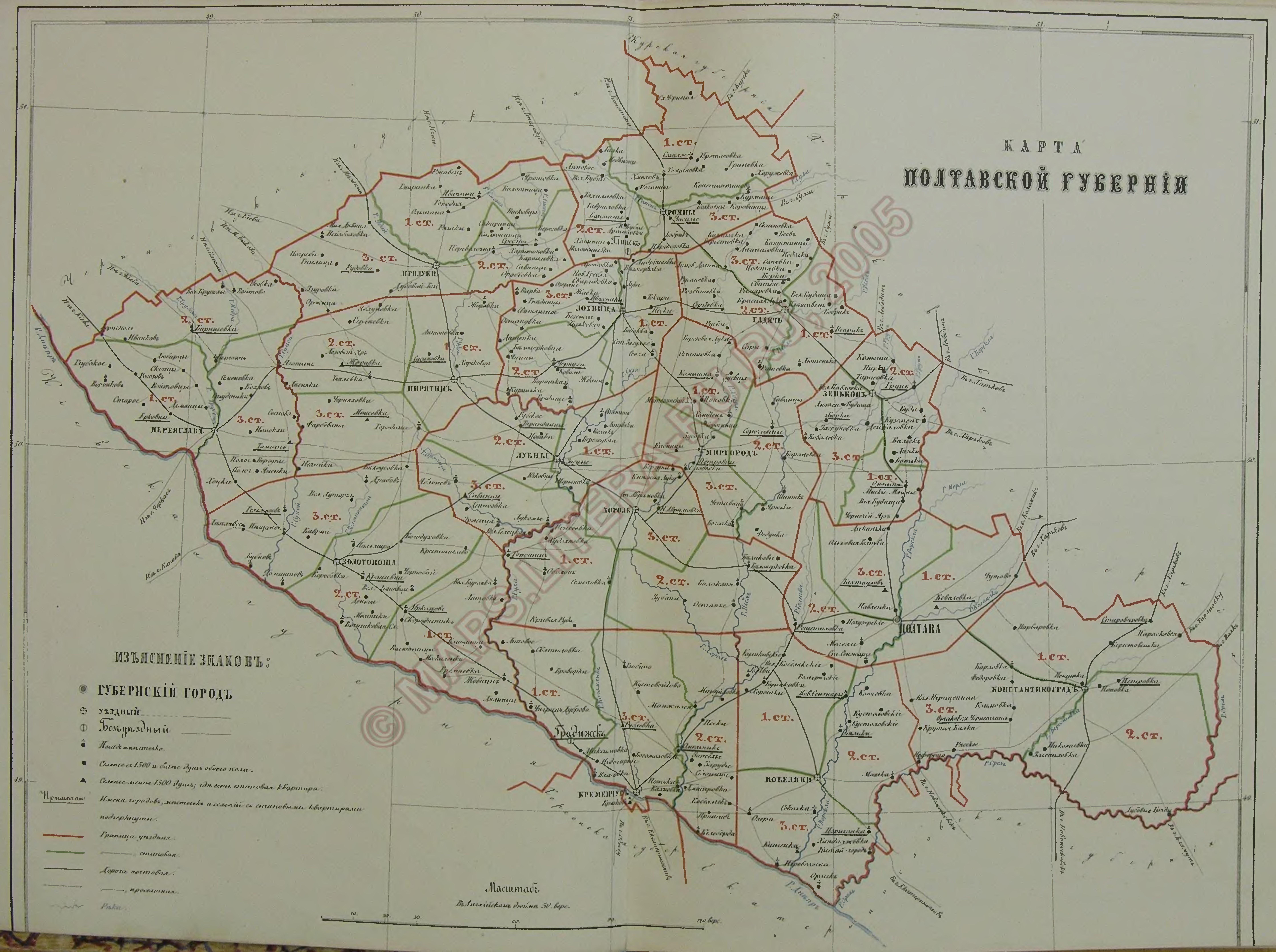 Map of Poltava province (up to 1862)